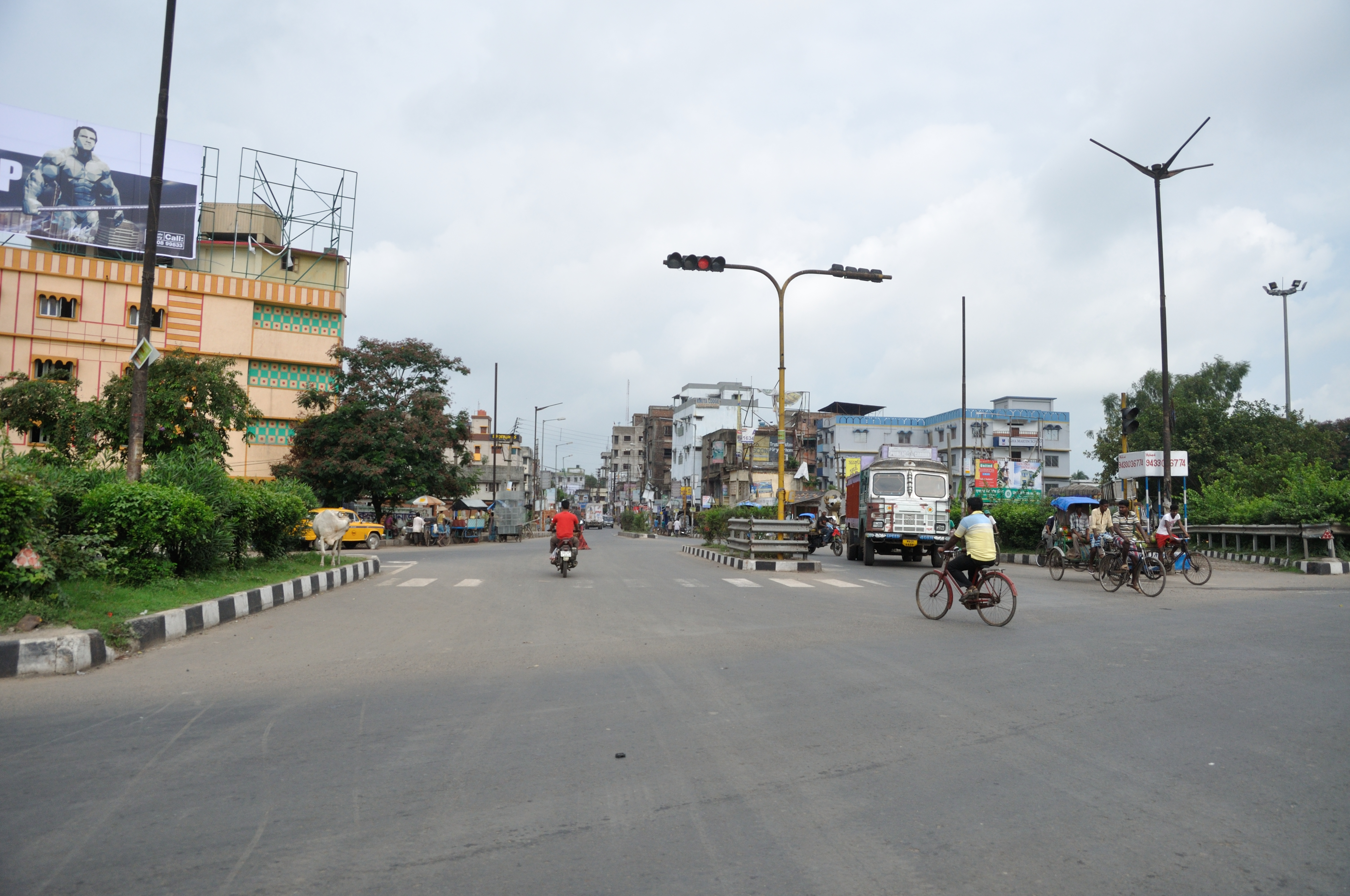 Photographed Hooghly district, Wset Bengal.